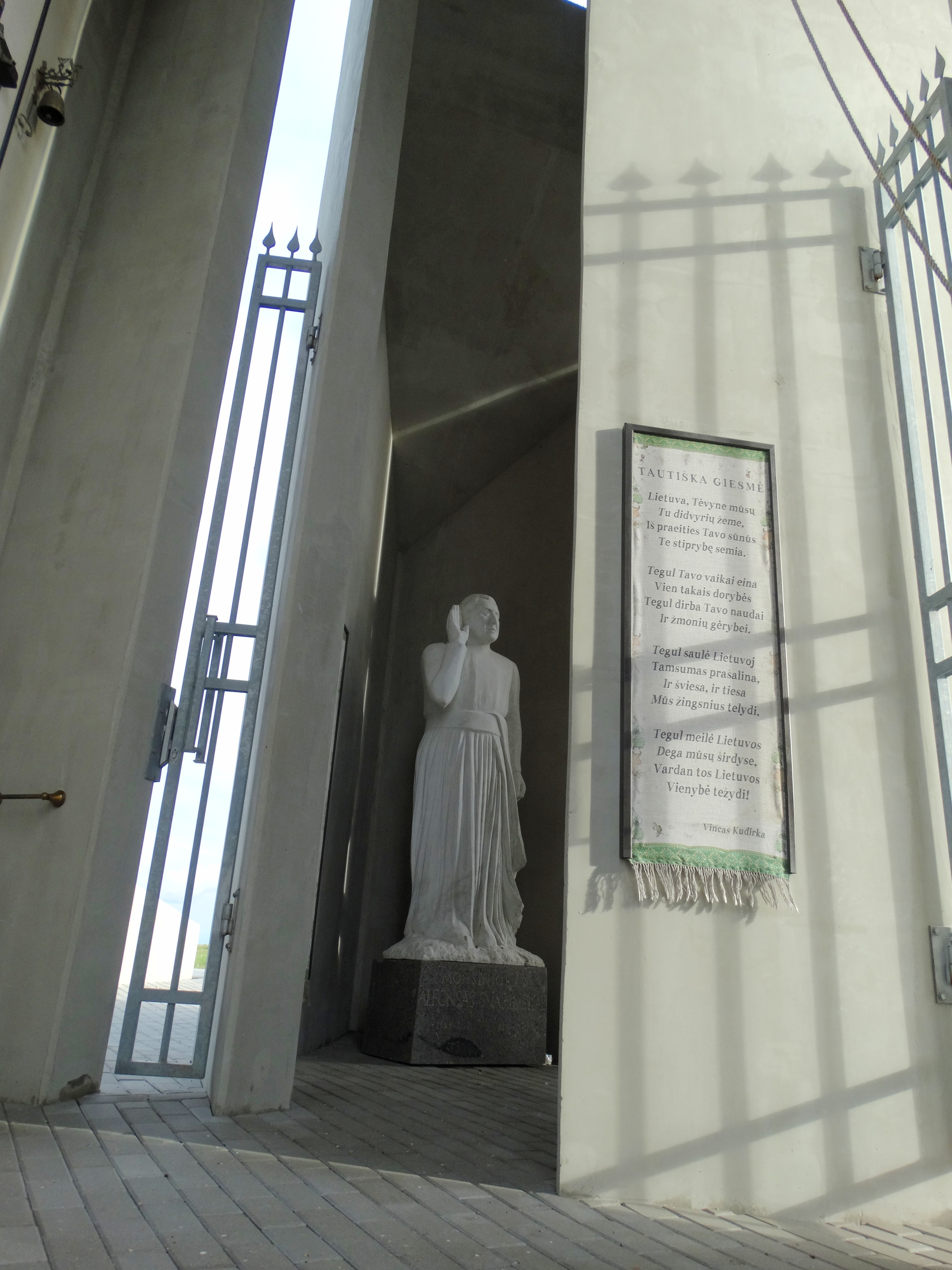 Kryžkalnis, chapel, Raseiniai district, Lithuania